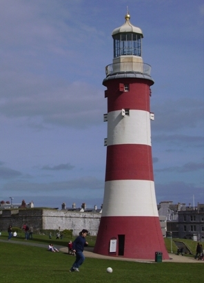 Picture of Smeaton's Tower , Plymouth Hoe.